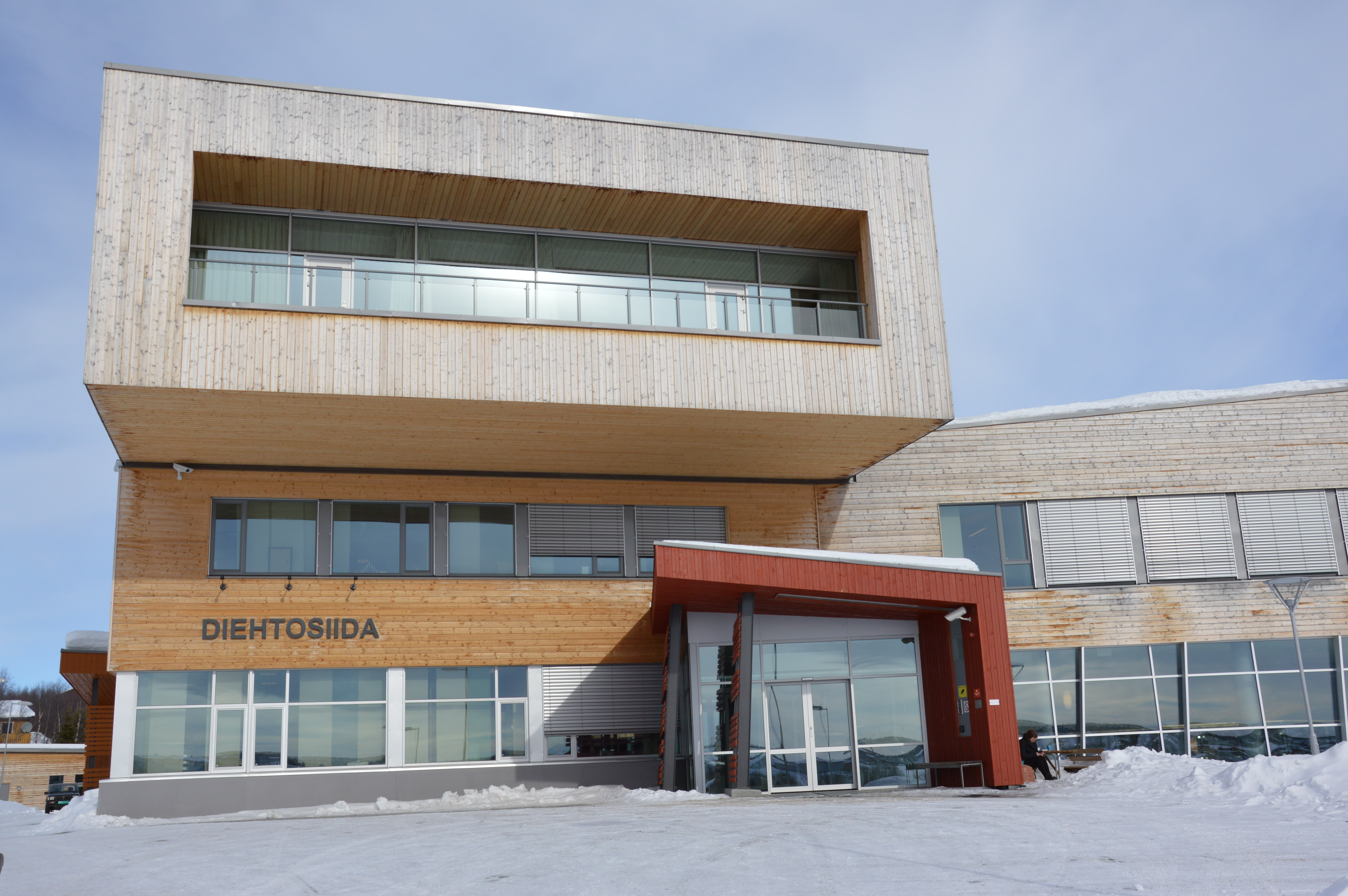 Diehtosiida, a Sami knowledge centre in Guovdageaidnu/Kautokeino, Norway. It is home to Sámi Allaskuvla (Sámi University College), the Sami Archives, Gáldu (Resource Centre for the Rights of Indigenous Peoples) and the International Centre for Reindeer Husbandry.